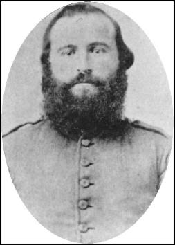 James McQueen McIntosh (1828 – March 7, 1862), a career American soldier who served as a brigadier general in the Confederate Army during the Civil War; he was killed in action at the Battle of Pea Ridge. Cleaned up version of this image, found at this page